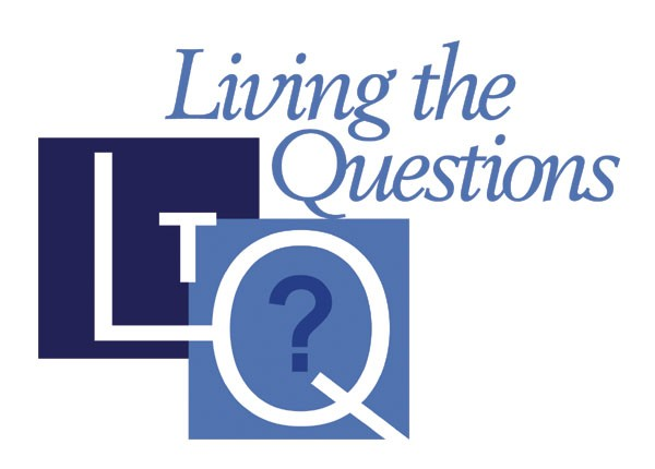 The corporate logo of , LLC